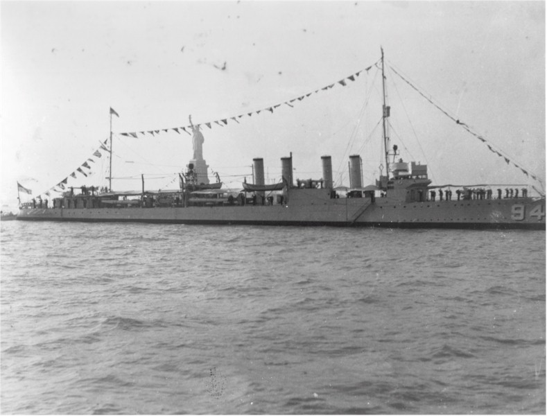 USS Taylor (DD-94) at New York Harbour.